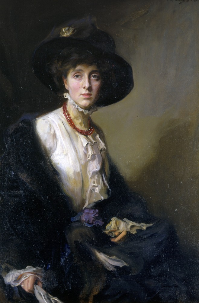 Lady Nicolson, née the Honourable Victoria Mary 'Vita' Sackville-West; wife of Sir Harold Nicolson